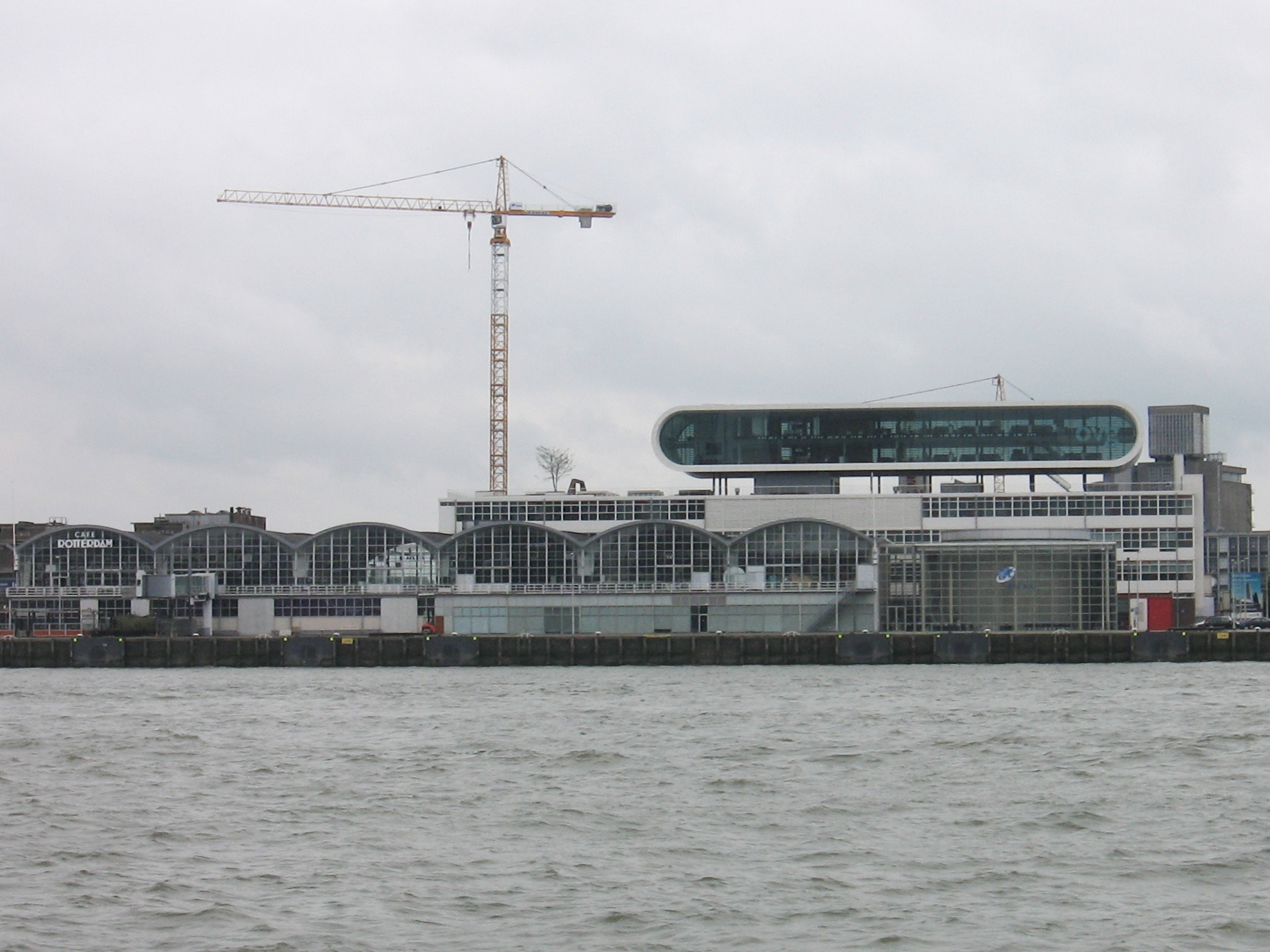 Cruise Terminal Rotterdam